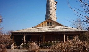 A picture of wooden mosque in Neyshabur